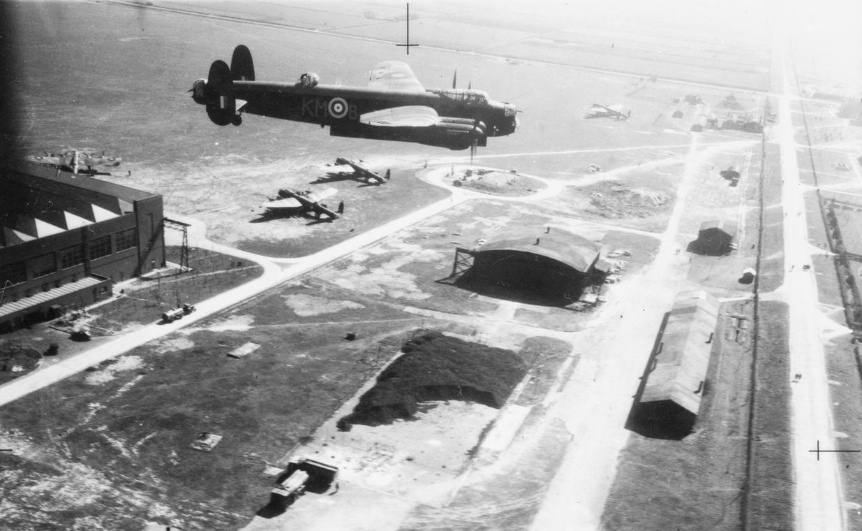 Squadron Leader John Nettleton brings his Lancaster over Waddington Airfield at the end of a practice flight for the Augsburg raid, 14 April 1942